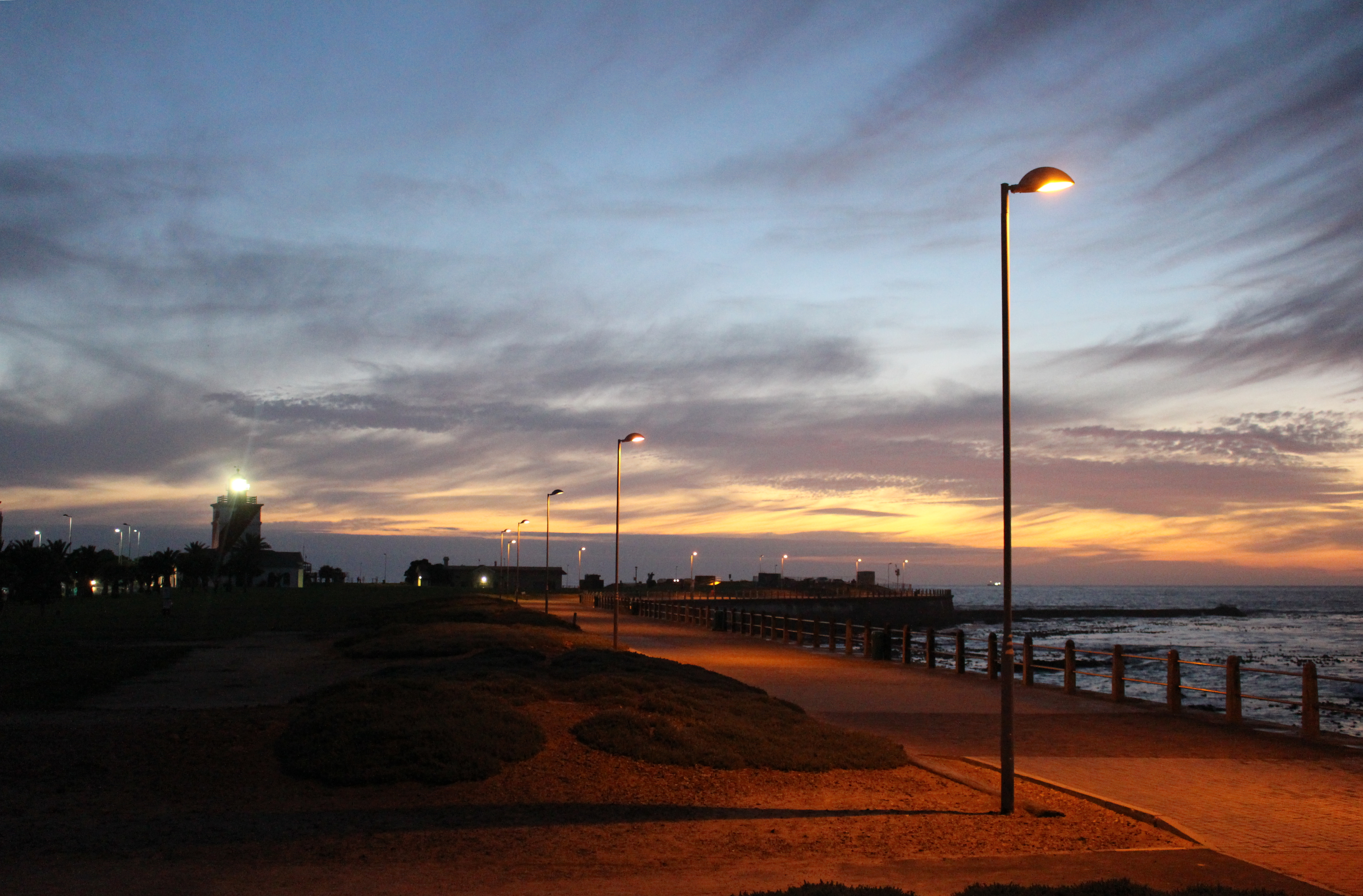 This media shows a South African Protected Site with SAHRA file reference 9/2/018/0053.